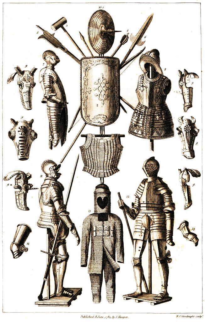 Types of Armour armour - weapons, knights, shields, helmets, swords, spears""